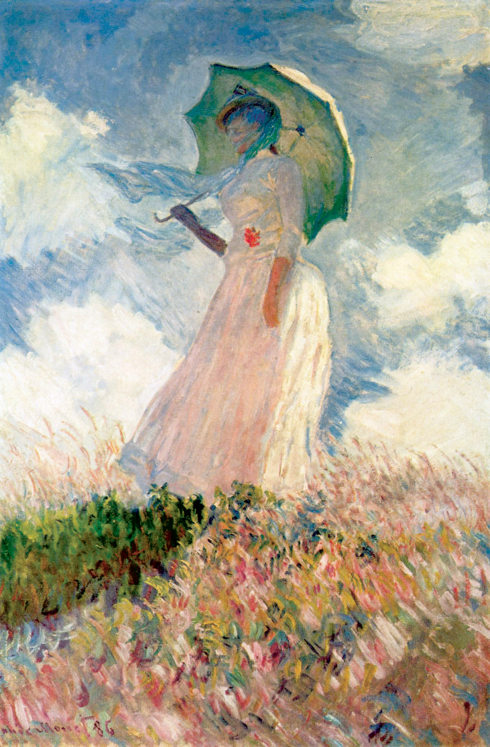 The pictured woman is Suzanne Hoschedé, daughter of Hoschedé, second wife of Claude Monet (1868-1899)